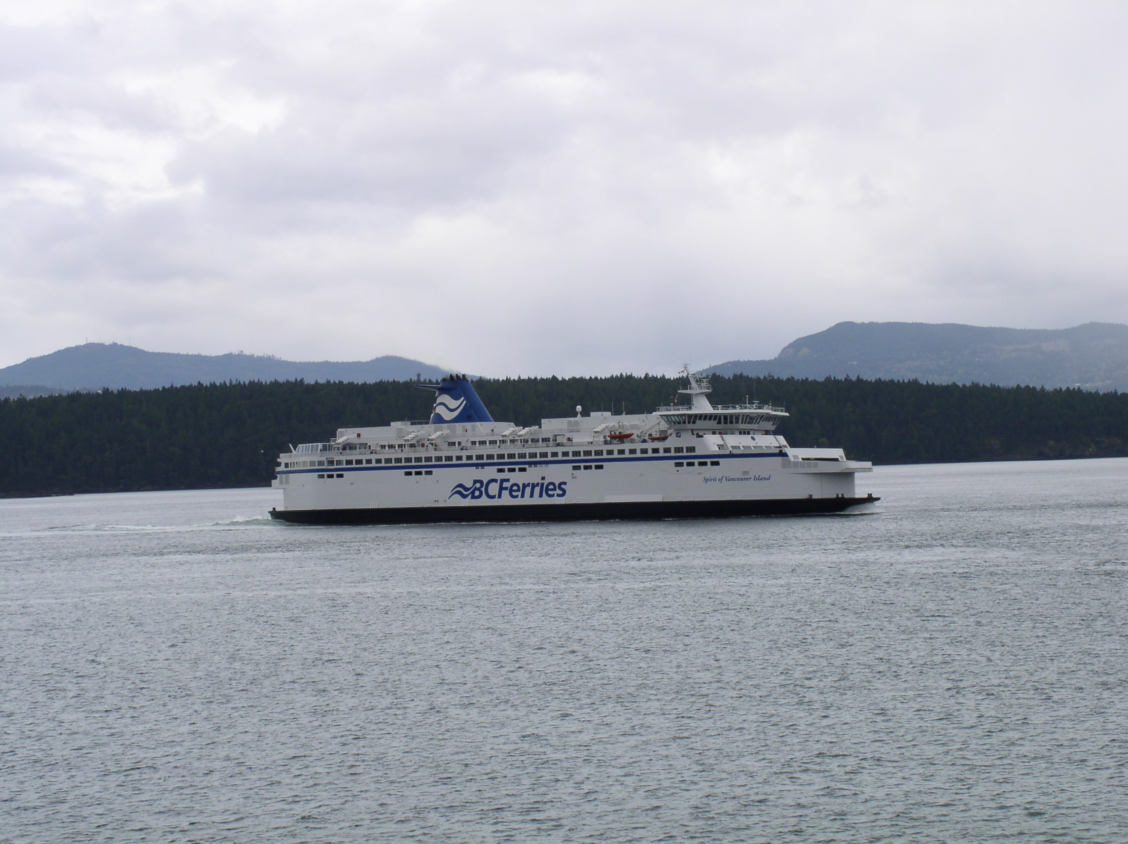 BC Ferry "Spirit of Vancouver Island" near Active Pass in the Gulf Islands en route to Vancouver IMO number: 9030682 Callsign: CFL2070